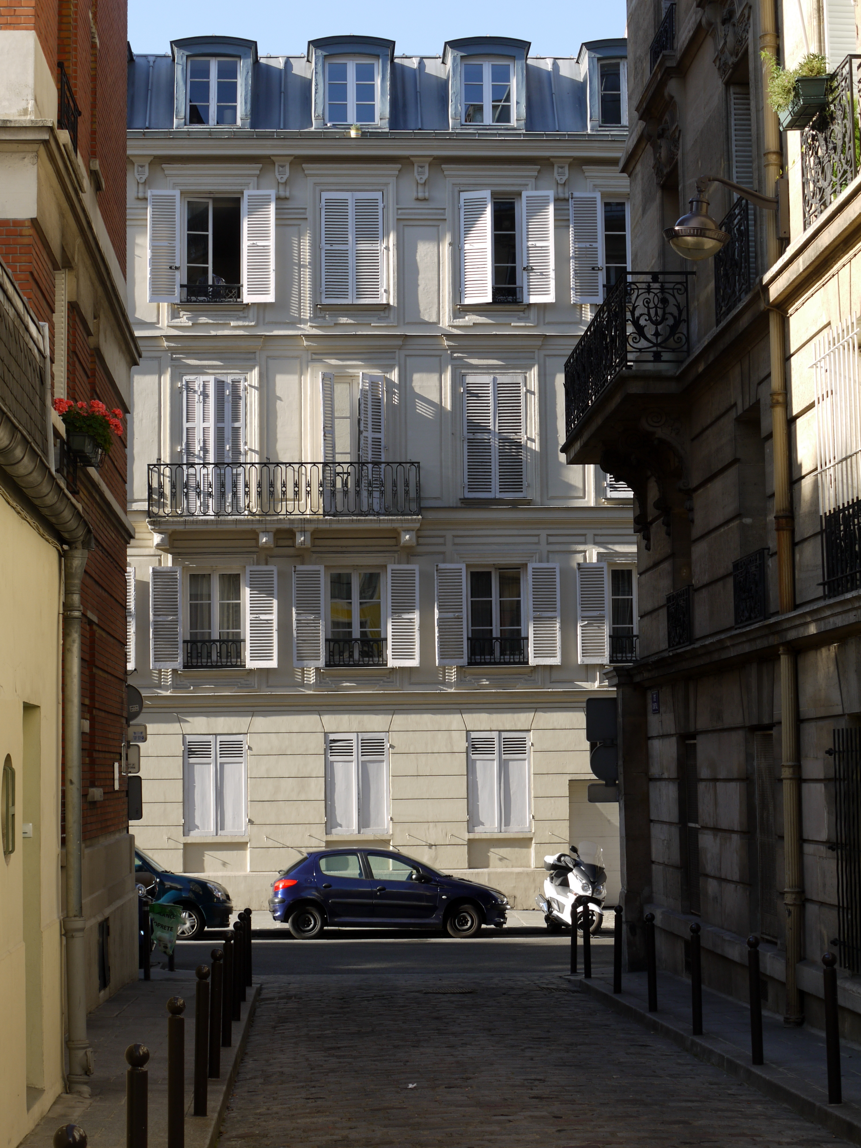 rue Chaptal Paris